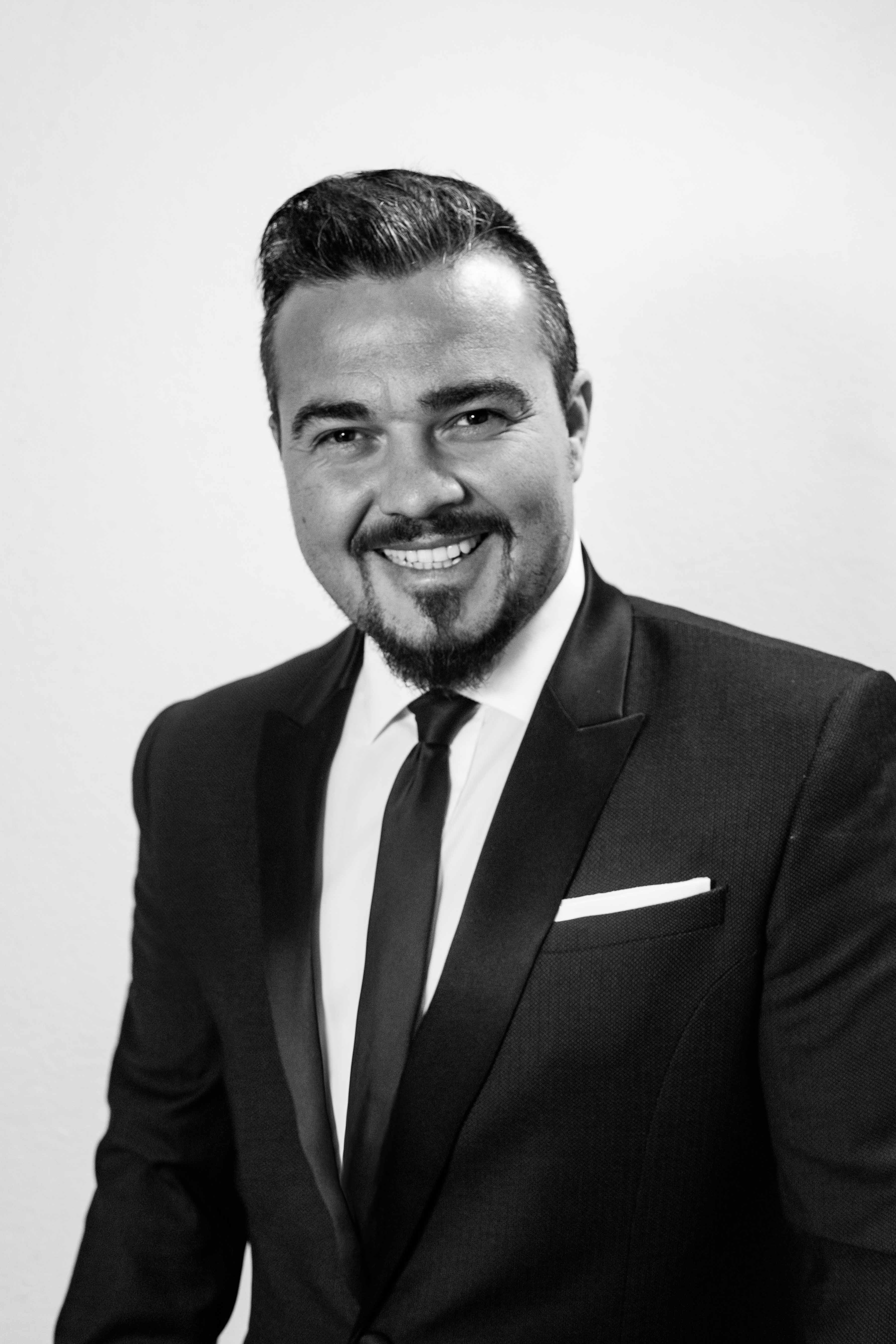 Studio portrait of Mitichi